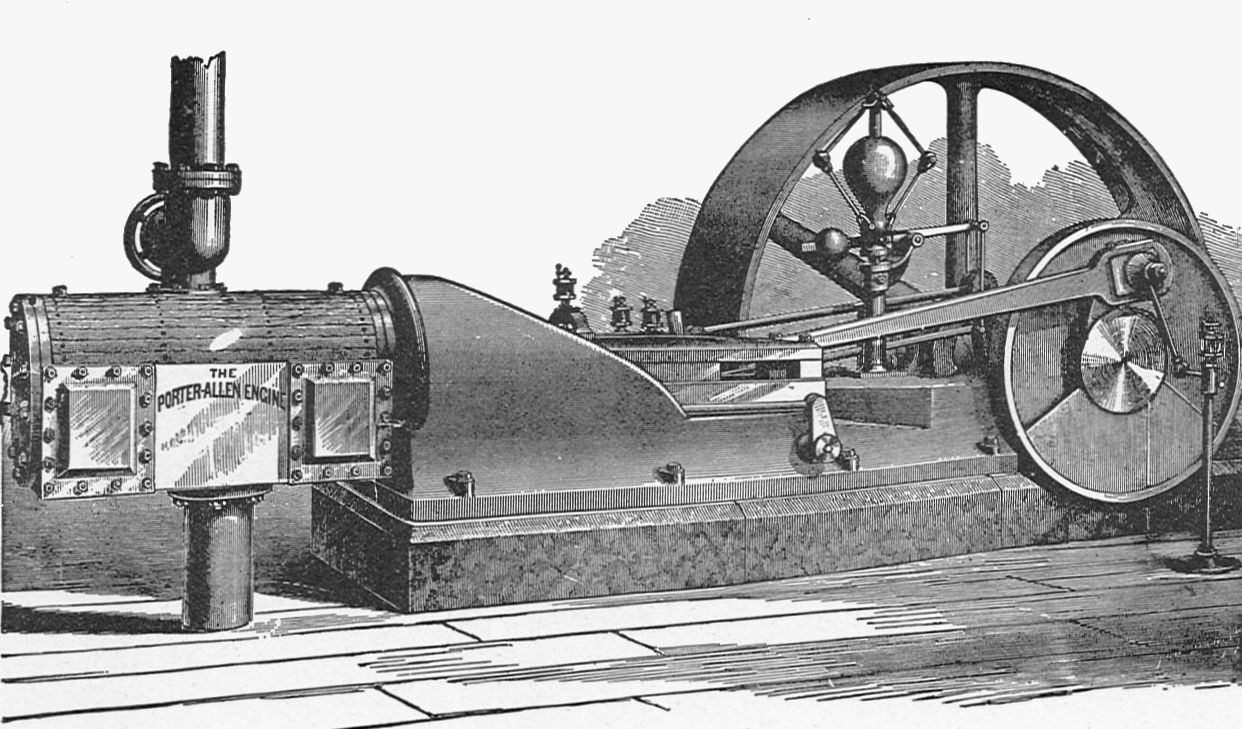 Porter-Allen high-speed engine (New Catechism of the Steam Engine, 1904).jpg